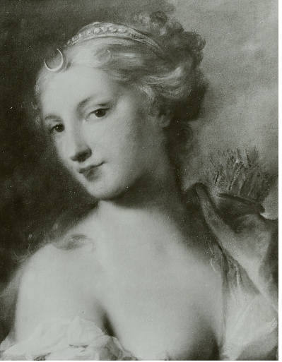 'Diana in a pink robe', by Rosalba Carriera, painted in 1725. This piece was part of the collections of the Gemäldegalerie Alte Meister in Dresden and and it has been missing since the end of World War II, in 1945. - Dimensions: 40 x 32 cm - Pastel on paper